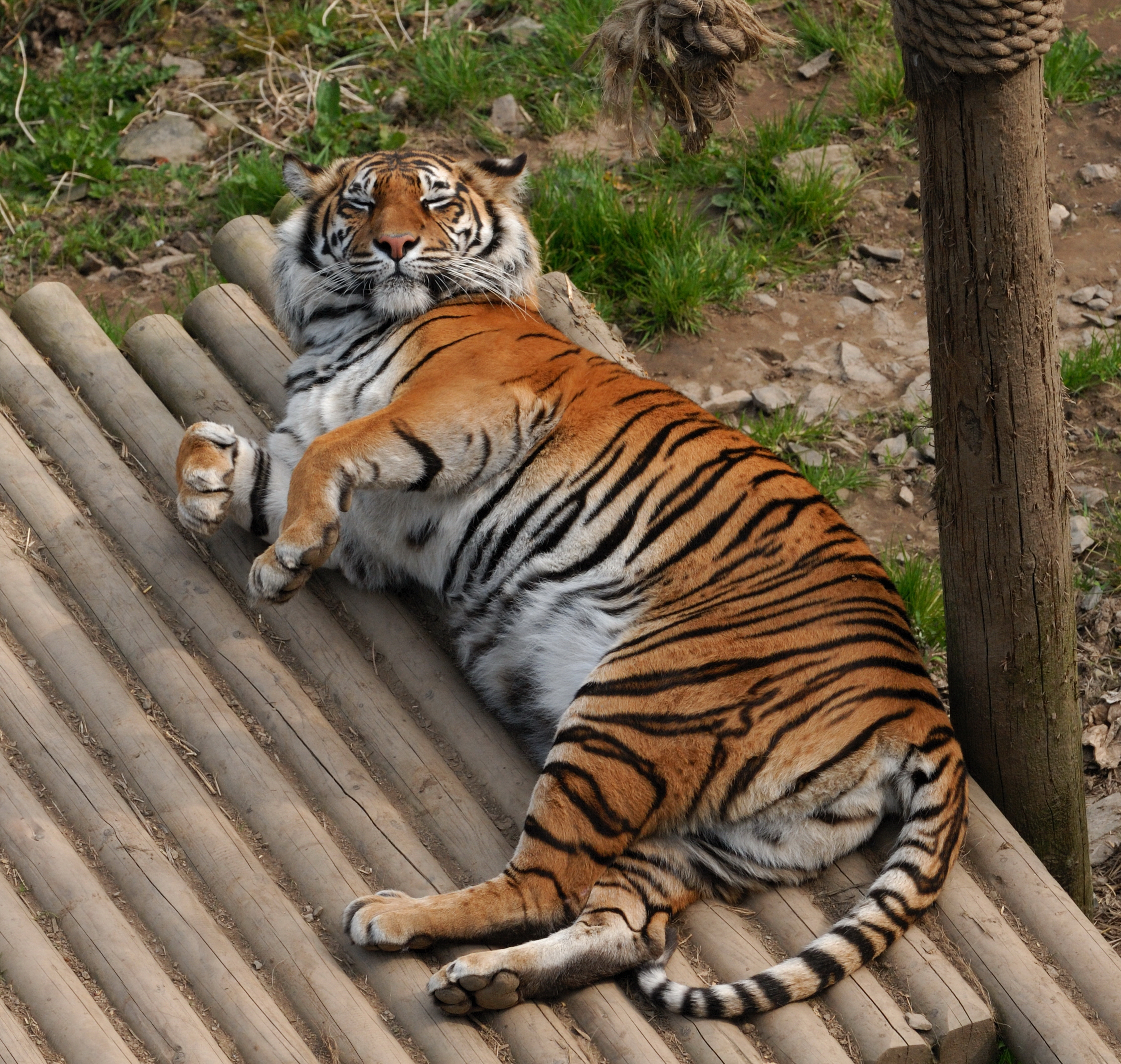 A Sumatran Tiger at Welsh Mountain Zoo, Colwyn Bay, Wales.